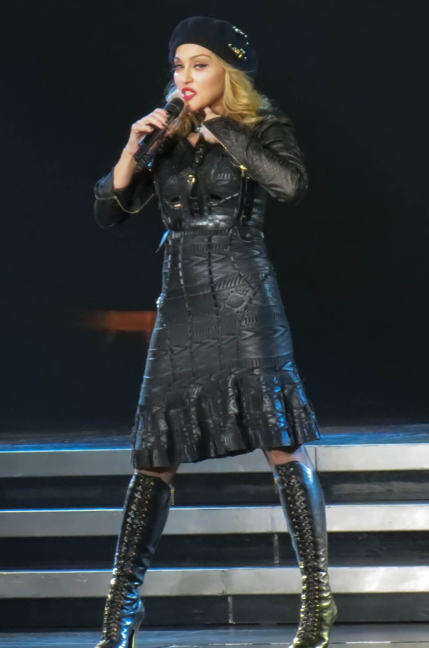 Madonna MDNA Tour 2012 at Key Arena in Seattle.